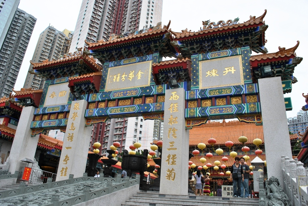 Sik Sik Yuen Wong Tai Sin Temple